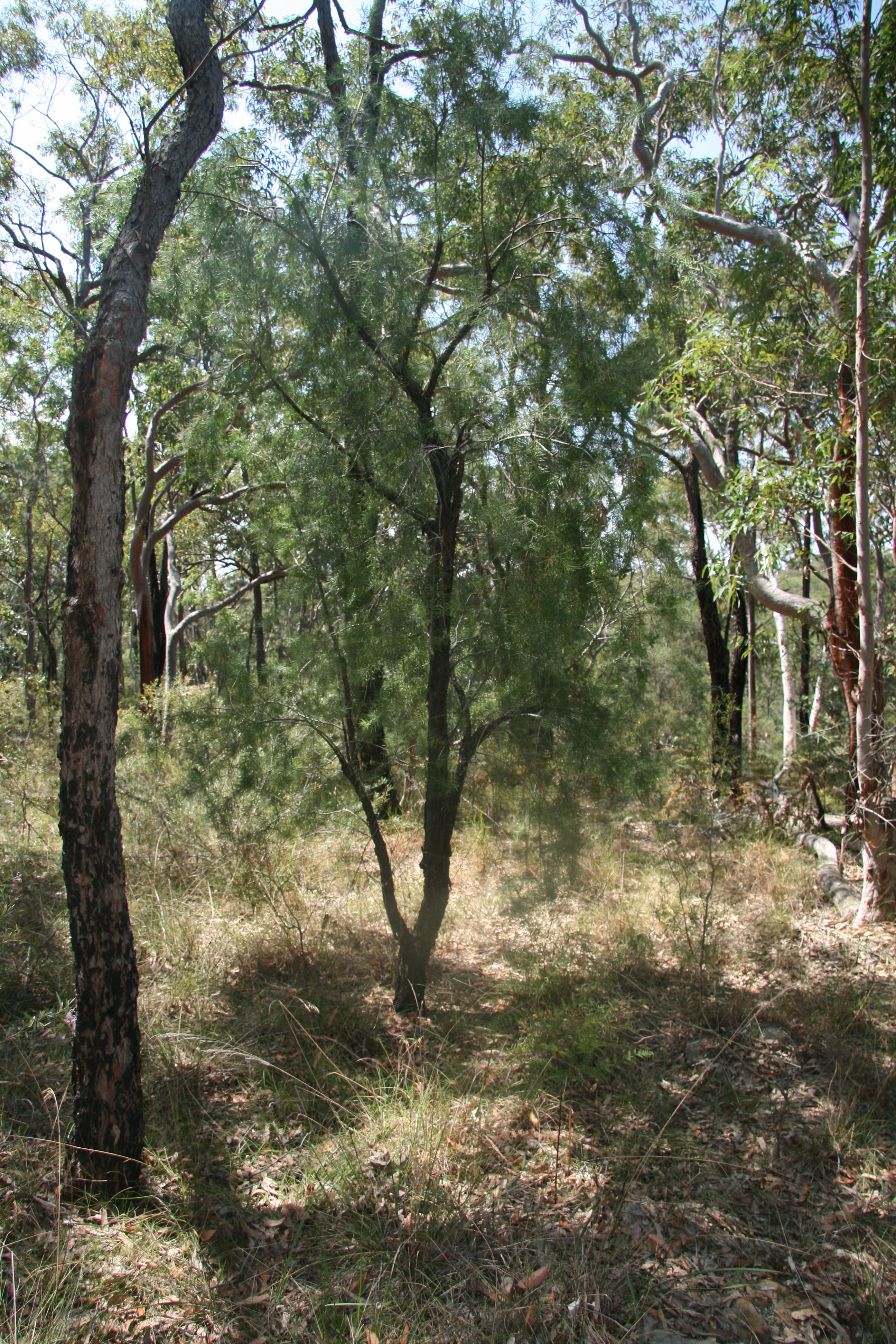 Persoonia linearis, habit - Georges River NP near Transgrid Electricity substation